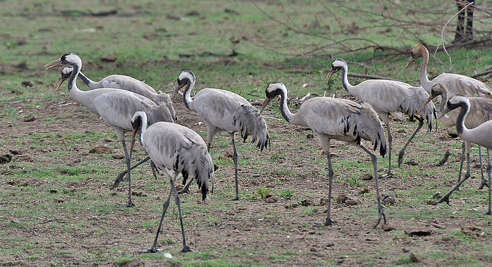 Common Cranes (Grus grus) at Keoladeo National Park, Bharatpur, Rajasthan, India.